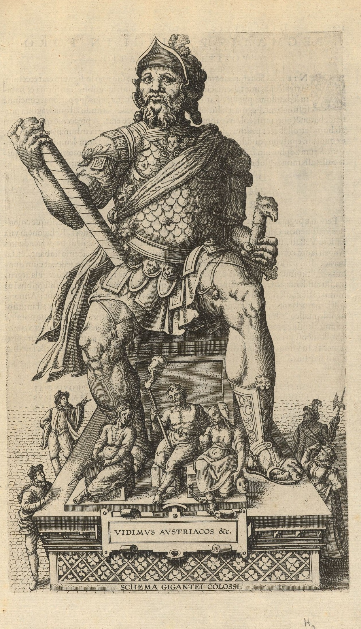 "Schema gigantei colossi", Illustration from Descriptio publicae gratulationis, spectaculorum et ludorum, in aduentu Sereniss. Principis Ernesti Archiducis Austriae, Antwerp: 1595, by Joannes Bochius (1555-1609). Typ 530.95.223, Houghton Library, Harvard University